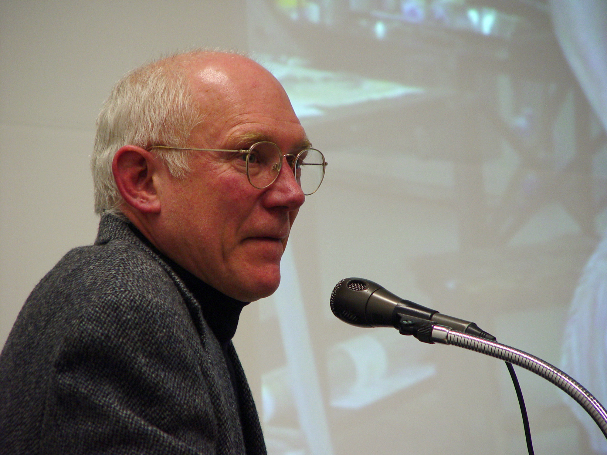 Poet, translator, book artist, and “prolific independent scholar", Robert Bringhurst gave a talk at the Vancouver Public Library on November 24, 2006.